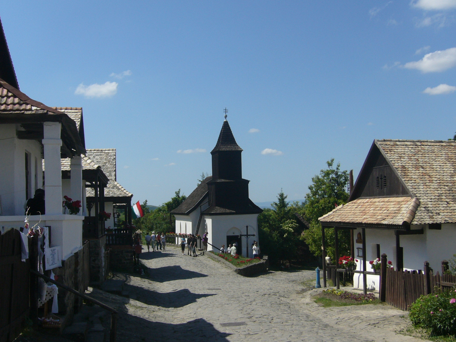 Hollókő, old village, Kossuth Lajos Street, with Saint Martin Parish Church.